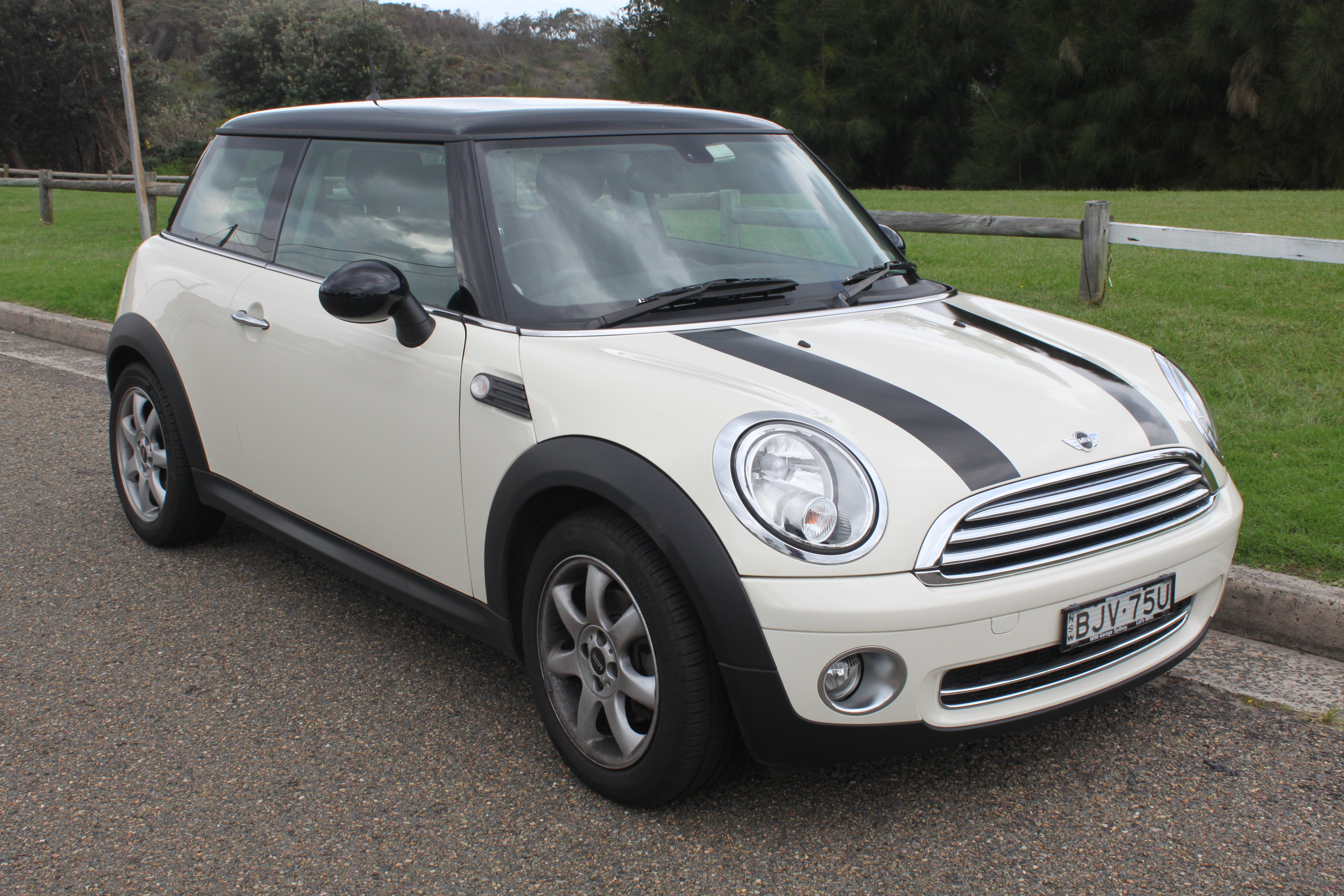 Mini Cooper R56